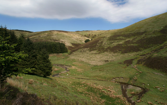 Dryfe Water Valley of Dryfe Water with Calf Gill in the distance.